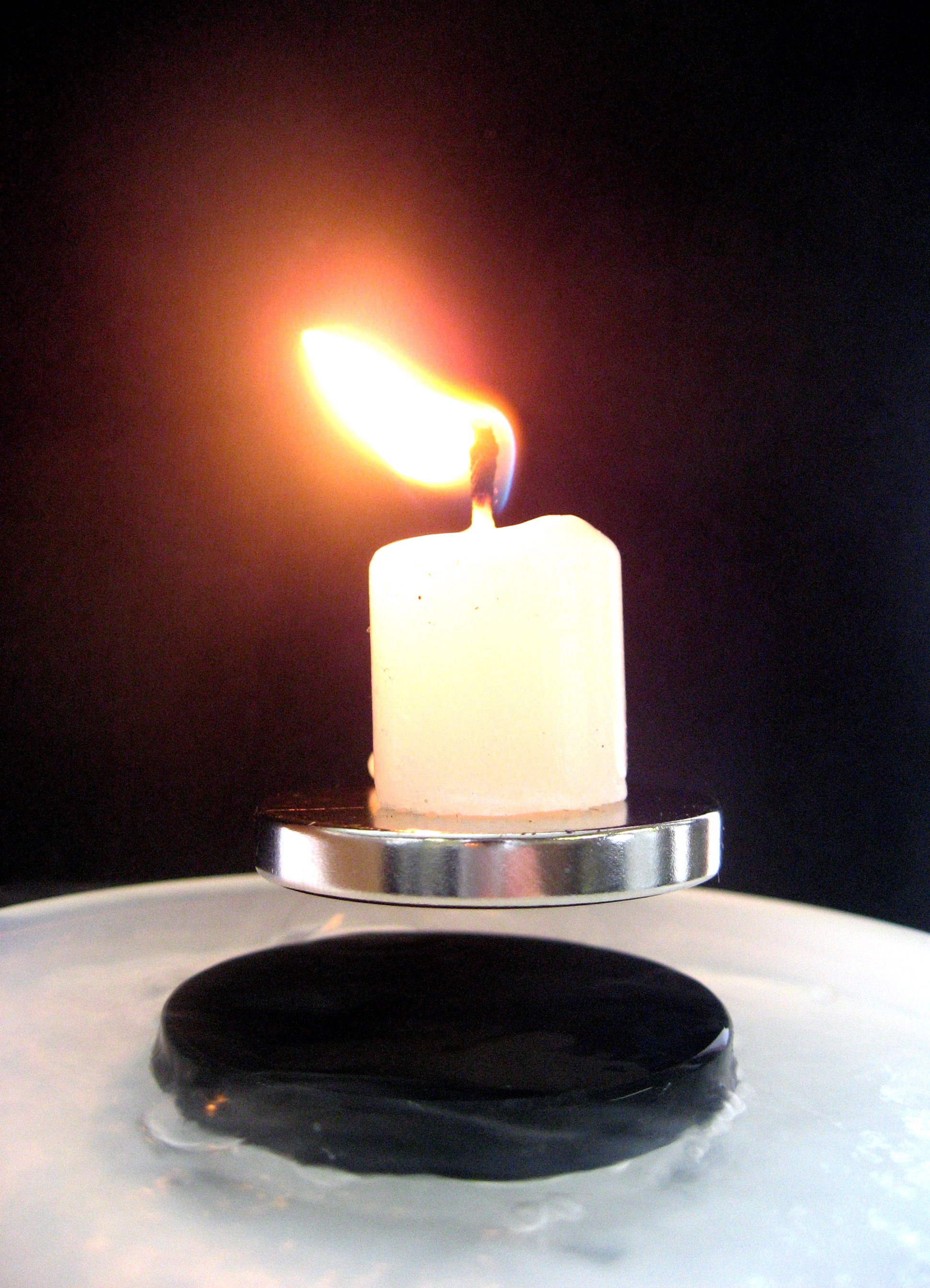 levitation of a magnet carrying a candle on top of a superconductor of cuprate type YBa2Cu3O7 cooled at -196°C.